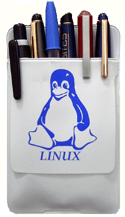 Photographed by John Hacking. Item manufactured by John Hacking and available at